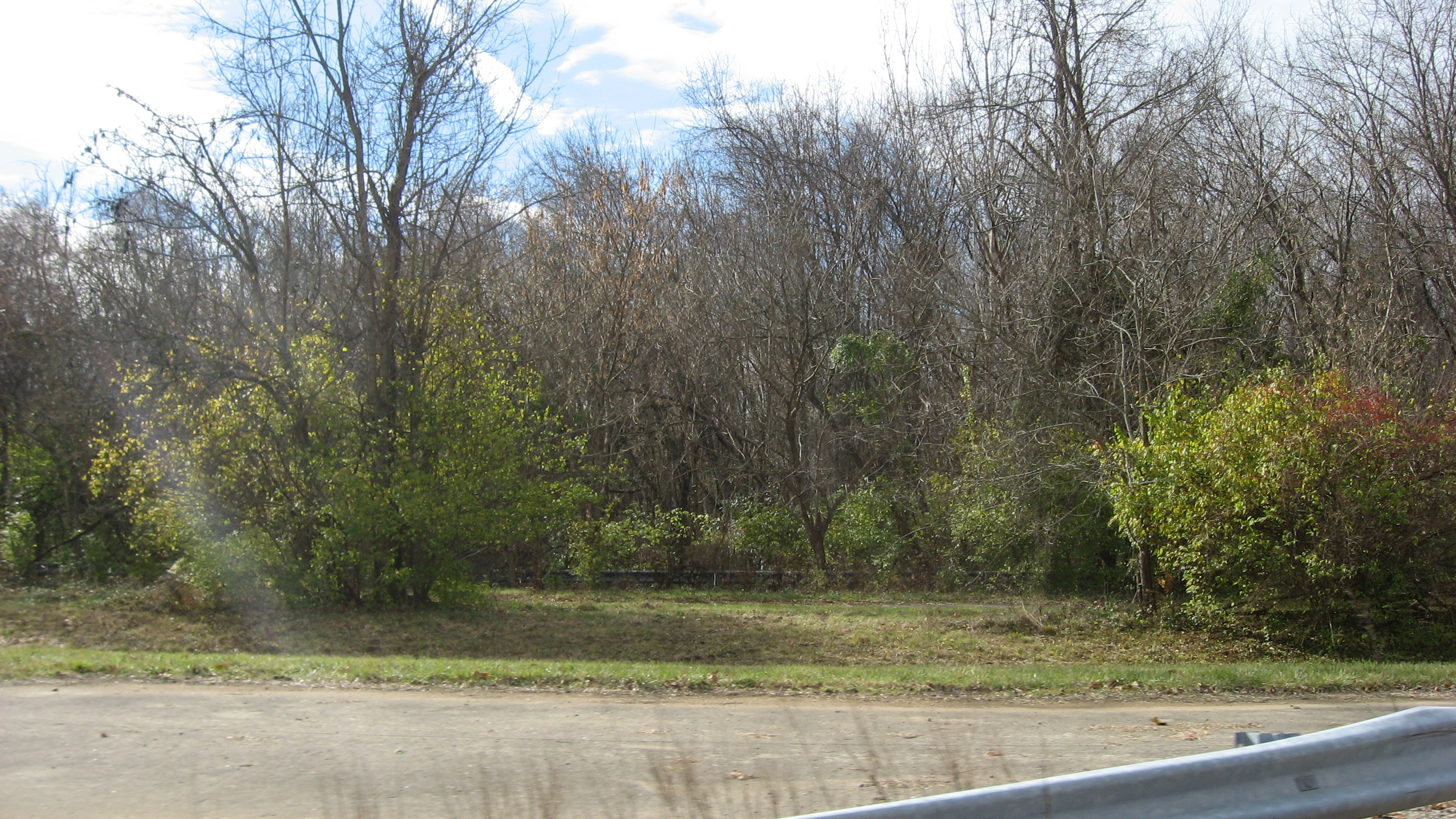 Open land in Ohio Township, Clermont County, Ohio, United States, seen looking west from U.S. Route 52 just southeast of New Richmond. Land in the woods composes the Ferris Site, an archaeological site from the Early Archaic period that is listed on the National Register of Historic Places.